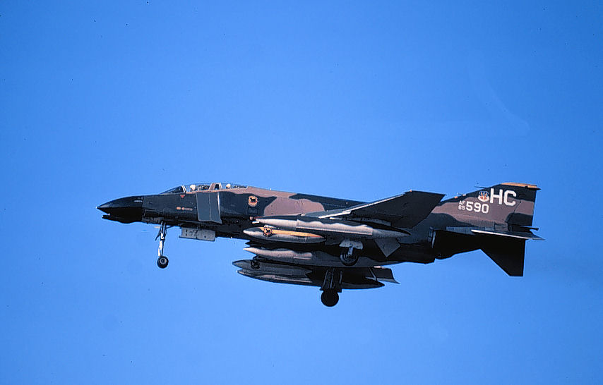 8th Tactical Fighter Squadron McDonnell F-4D-26-MC Phantom 65-0590 Holloman AFB, New Mexico. Aircraft was retired to AMARC as FP492 Apr 12, 1990. Still on AMARC inventory Jan 15, 2008